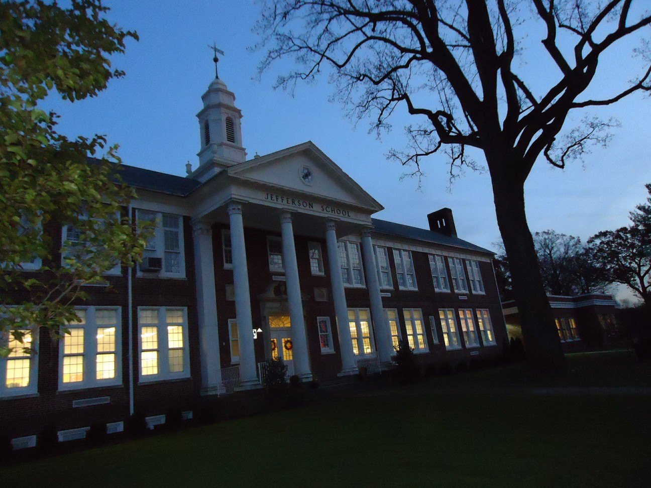 Jefferson elementary school in Summit, New Jersey.